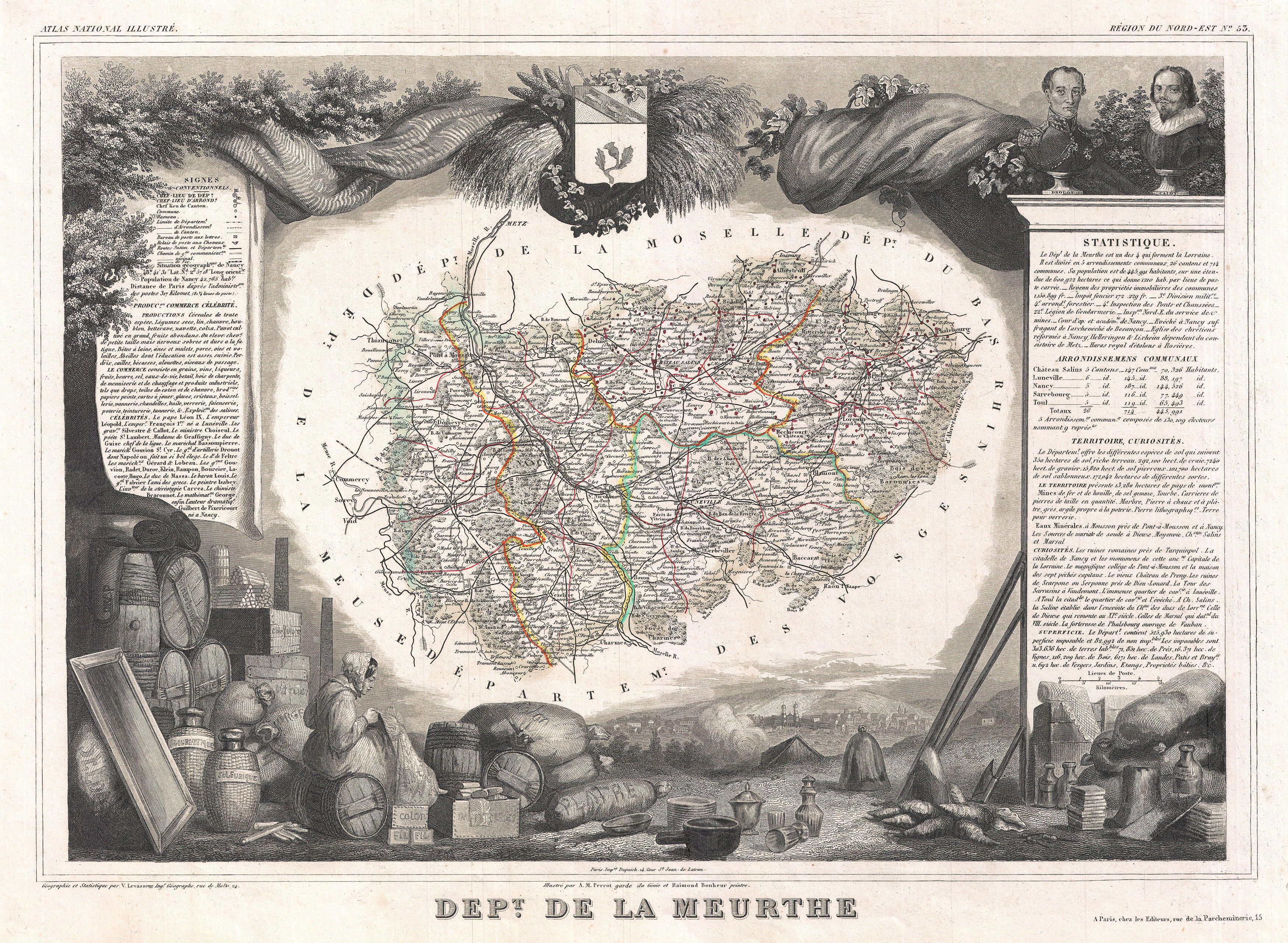 This is a fascinating 1852 map of the French department of Meurthe, France. Part of Lorraine and the Alsace-Lorraine wine region. The map proper is surrounded by elaborate decorative engravings designed to illustrate both the natural beauty and trade richness of the land. There is a short textual history of the regions depicted on both the left and right sides of the map. Published by V. Levasseur in the 1852 edition of his Atlas National de la France Illustree.